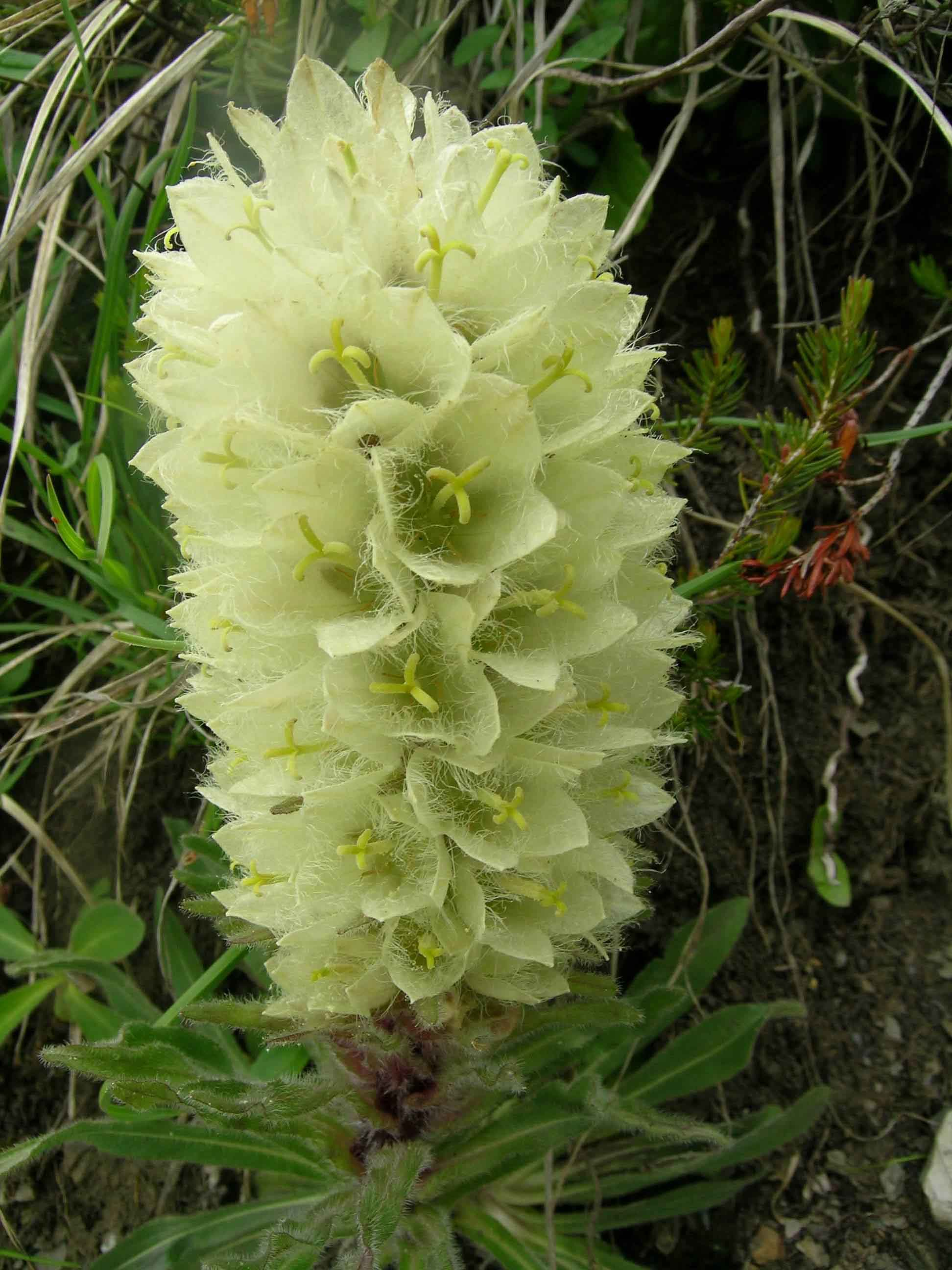 Campanula thyrsoides, Schynige Platte (Kt. Bern, Switzerland, 1950 m. ü. M)